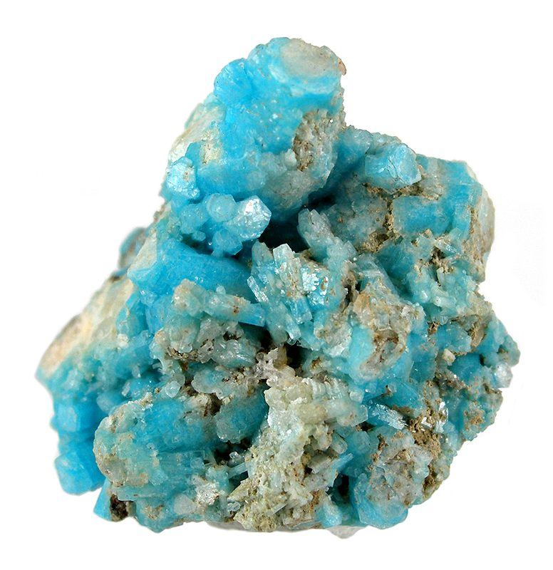 Leadhillite Locality: Tiger Mine, Amado Mine group, Las Guijas Mts, Arivaca District (Las Guijas District), Las Guijas & San Luis Mts, Pima County, Arizona, USA (Locality at ) Size: miniature, 3.2 x 3.1 x 2.1 cm Leadhillite Leadhillite is normally found in secondary deposits in arid areas. This, uncommon, lead, sulfate, carbonate, hydroxide, occurs here as lovely sky blue, translucent crystals to .7 cm in length. Essentially closed by WW2, this venerable old mine has, nevertheless, produced a plethora of fine secondary copper and lead minerals. Among the most desirable is a rich and aesthetic leadhillite such as this and Tiger pieces are considered among the more beautiful examples of the species! This is one of the better specimens I have seen for sale , for both crystal sharpness (often they are too lumpy) and the bright color.